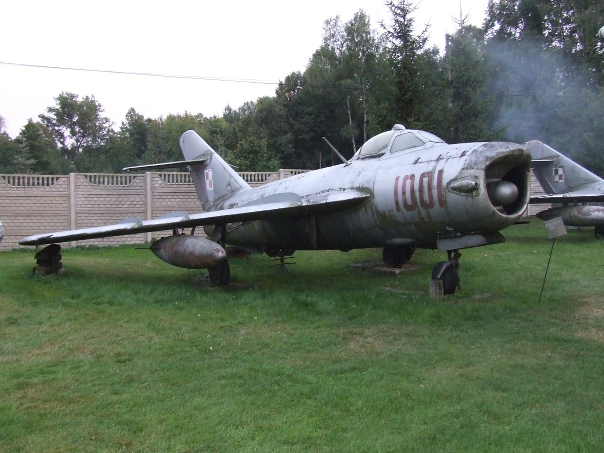 All-weather interceptor (licensed MiG-17PF)